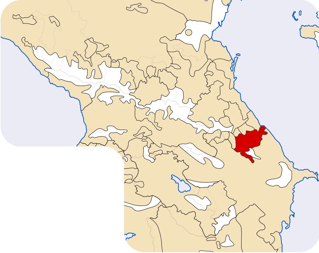 Location map of the Lezgins.